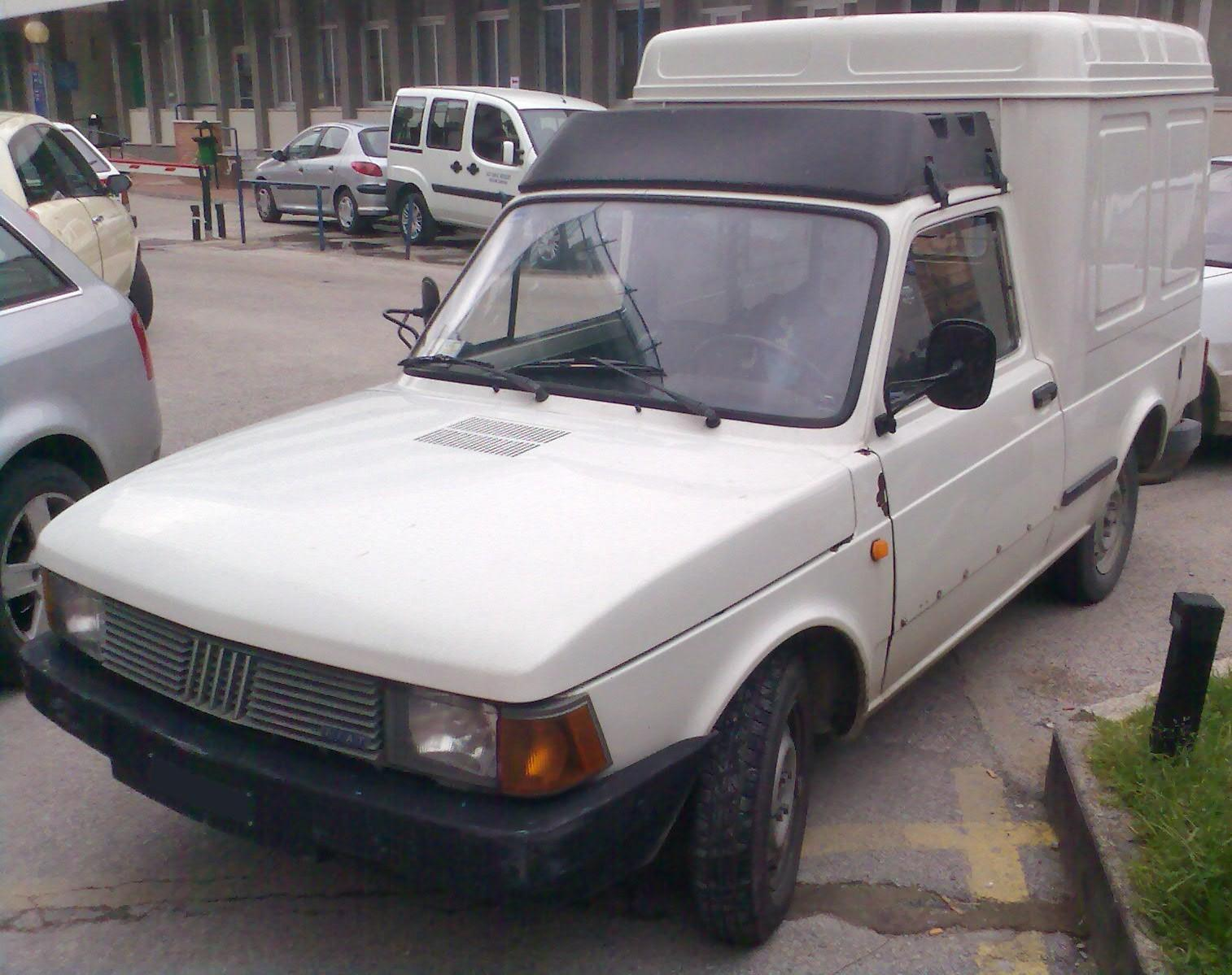 Fiat Fiorino